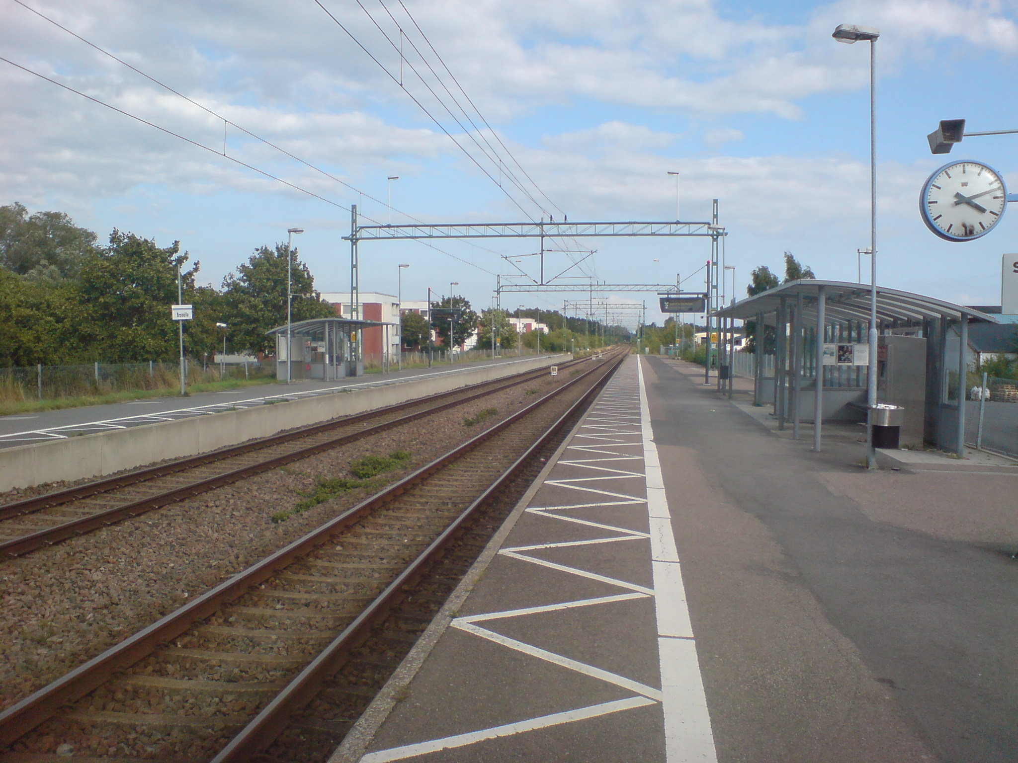 Photo of track 2 on Bromölla station. The picture shows the track to Karlskrona (track 1). Farther away (not shown in picture) connects the track to Nymölla paper on the right side.